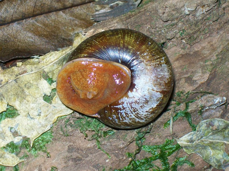 An rainforest snail from the genus Meridolum, 4 cm shell length. At Camp Gully Creek, Garawarra State Conservation Area, Australia. (-34.18506 south, 151.00581 east). The Australian Museum identified the snail as Meridolum marshalli. However, Michael Shea of the Australian Museum says that recent research suggests this species is genetically identical to Meridolum gulosum.